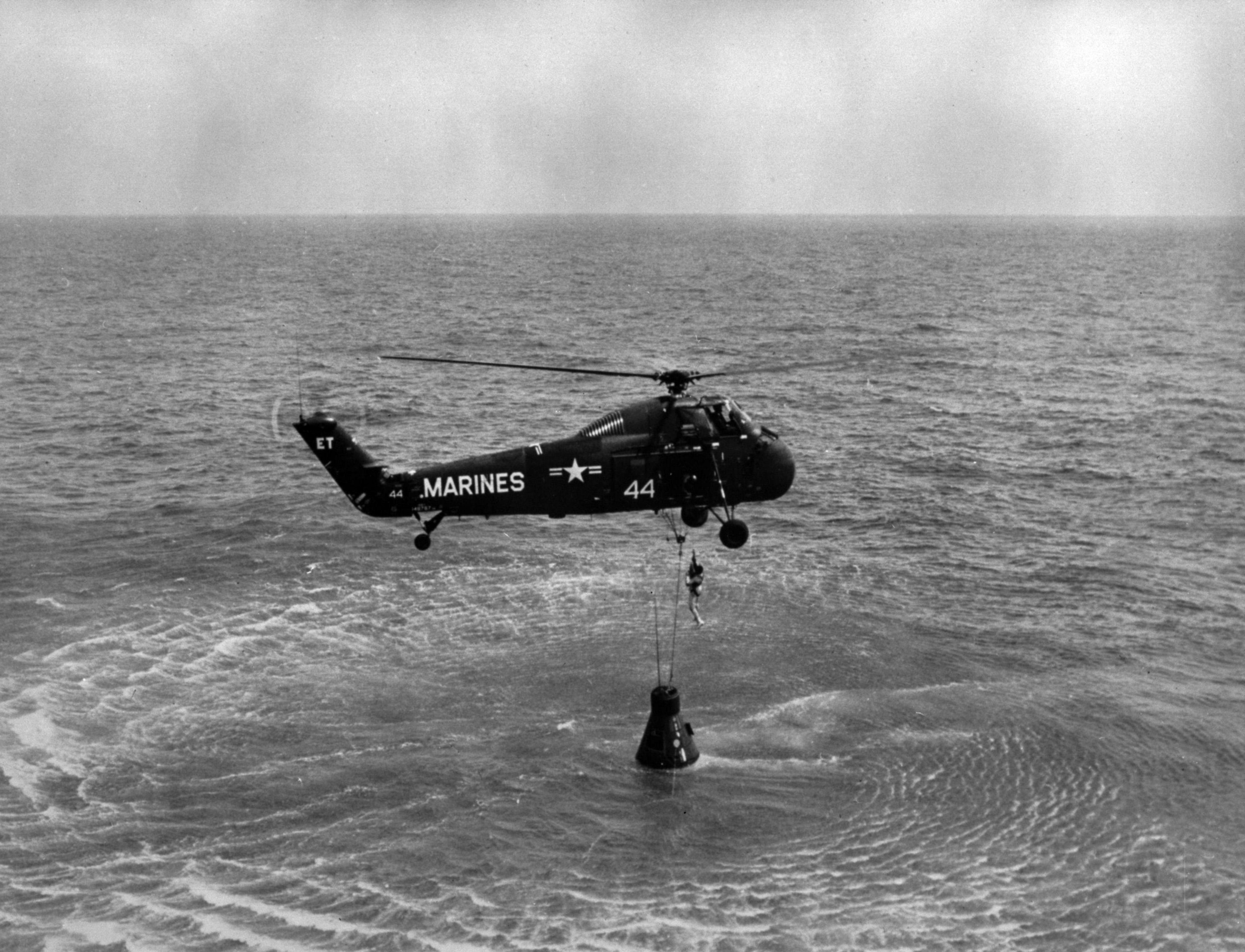 NASA astronaut Alan B. Shepard Jr. is hoisted up in a body harness by a U.S. Marine Sikorsky UH-34D helicopter recovery team of Marine squadron HMM-262 following the first Project Mercury suborbital space flight, 5 May 1961. The command pilot was Wayne Koons and the co-pilot was George Cox. Astronaut Shepard, along with his spacecraft, was then taken to the U.S. Navy carrier Lake Champlain (location: 27.23° N 75.88° W).